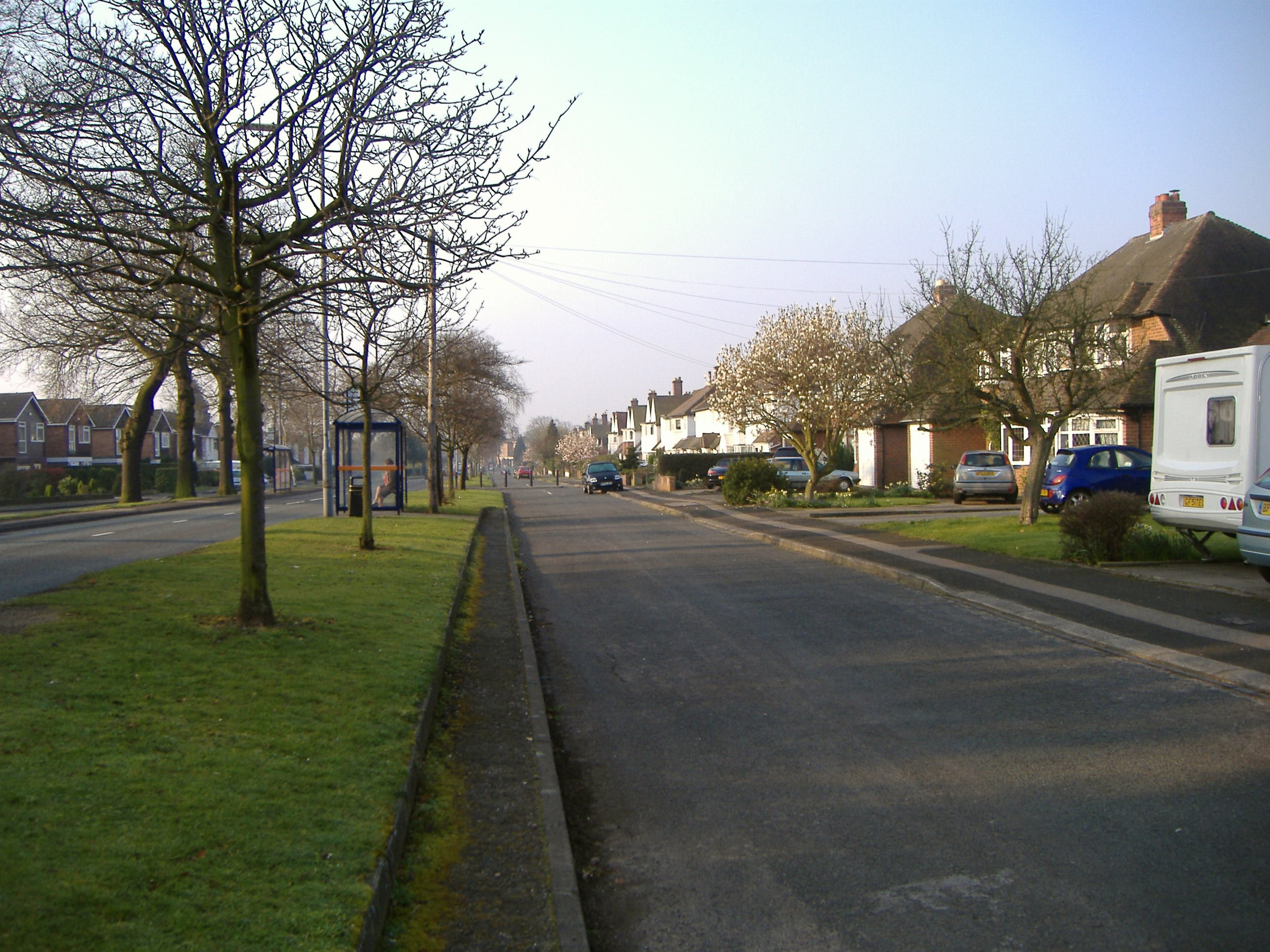 Created by Erebus555. This is Walmley Road looking towards Walmley Village in Walmley, Sutton Coldfield. To the right are 1930s semi-detached houses and to the left are 1970s detached and semi-detached houses with some 1930s styles.